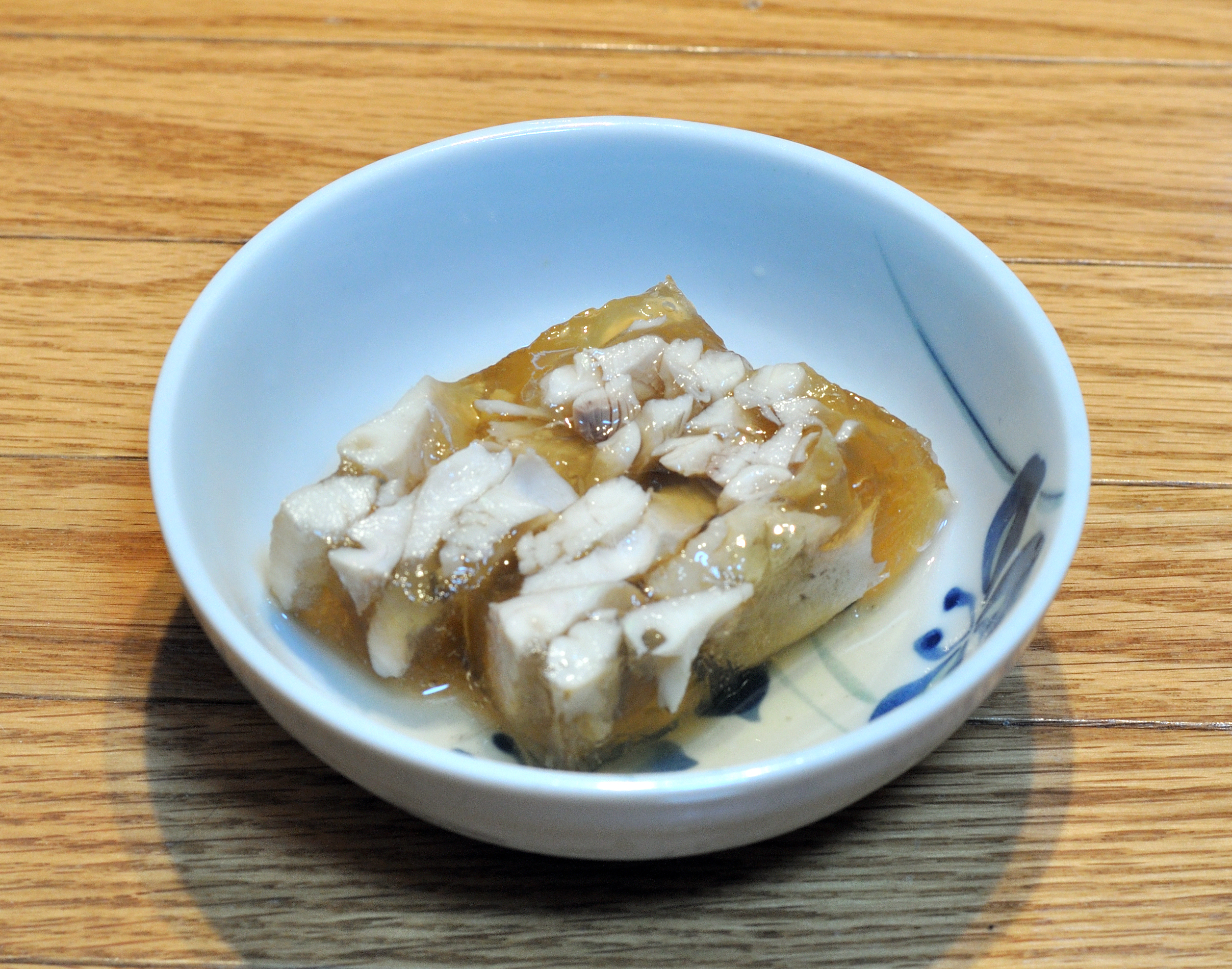 Typical sample of Nikogori